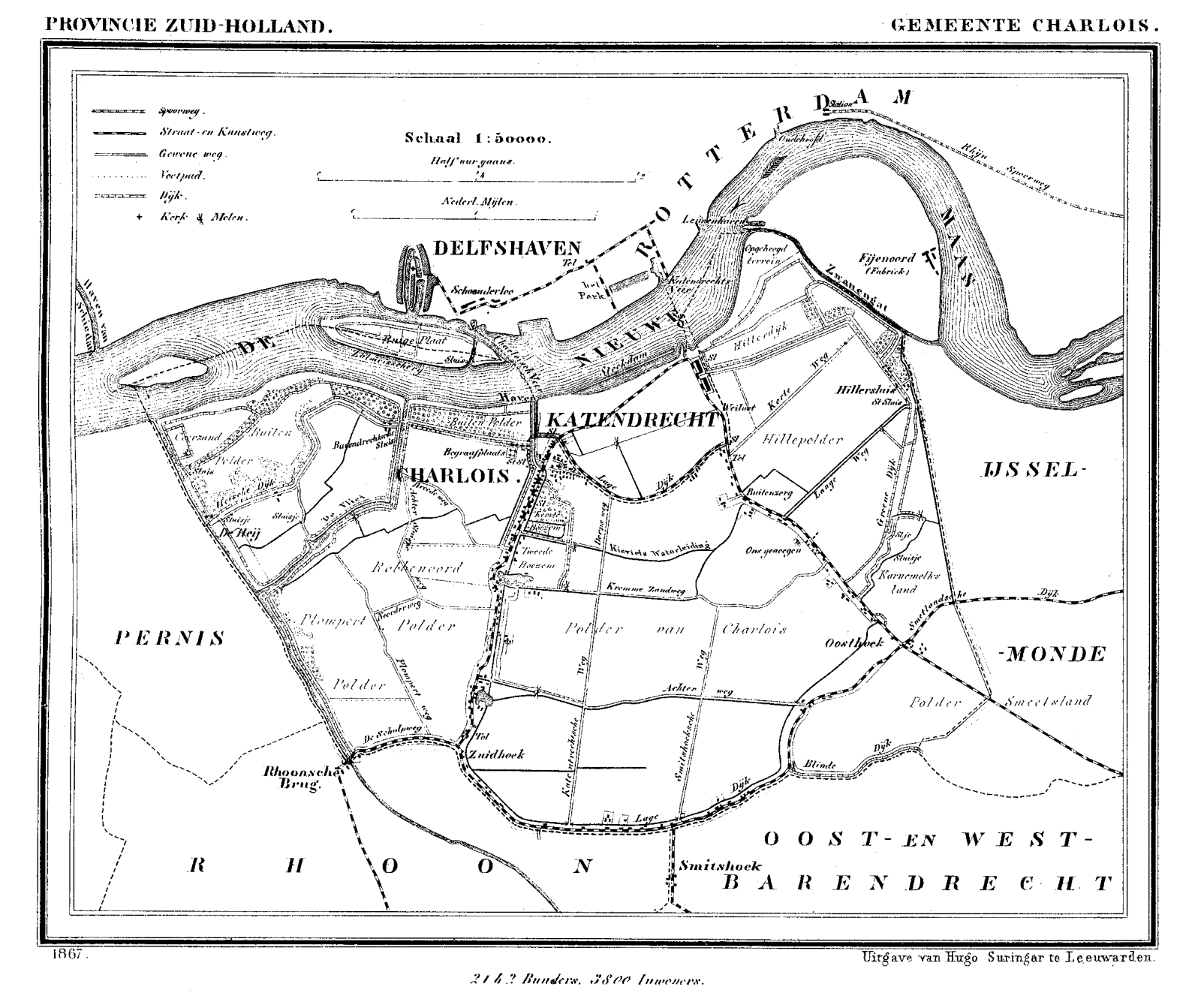 Historic map of Charlois (now part of municipality Rotterdam), South Holland, the Netherlands